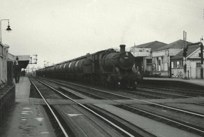 GWR Collett "2884" 2-8-0 No.3823 restarts after a signal stop at Oxford station on a Rowley Regis - Thames Haven oil tanker train, 04/65. Scanned photograph taken with an Halina 35X Super camera.